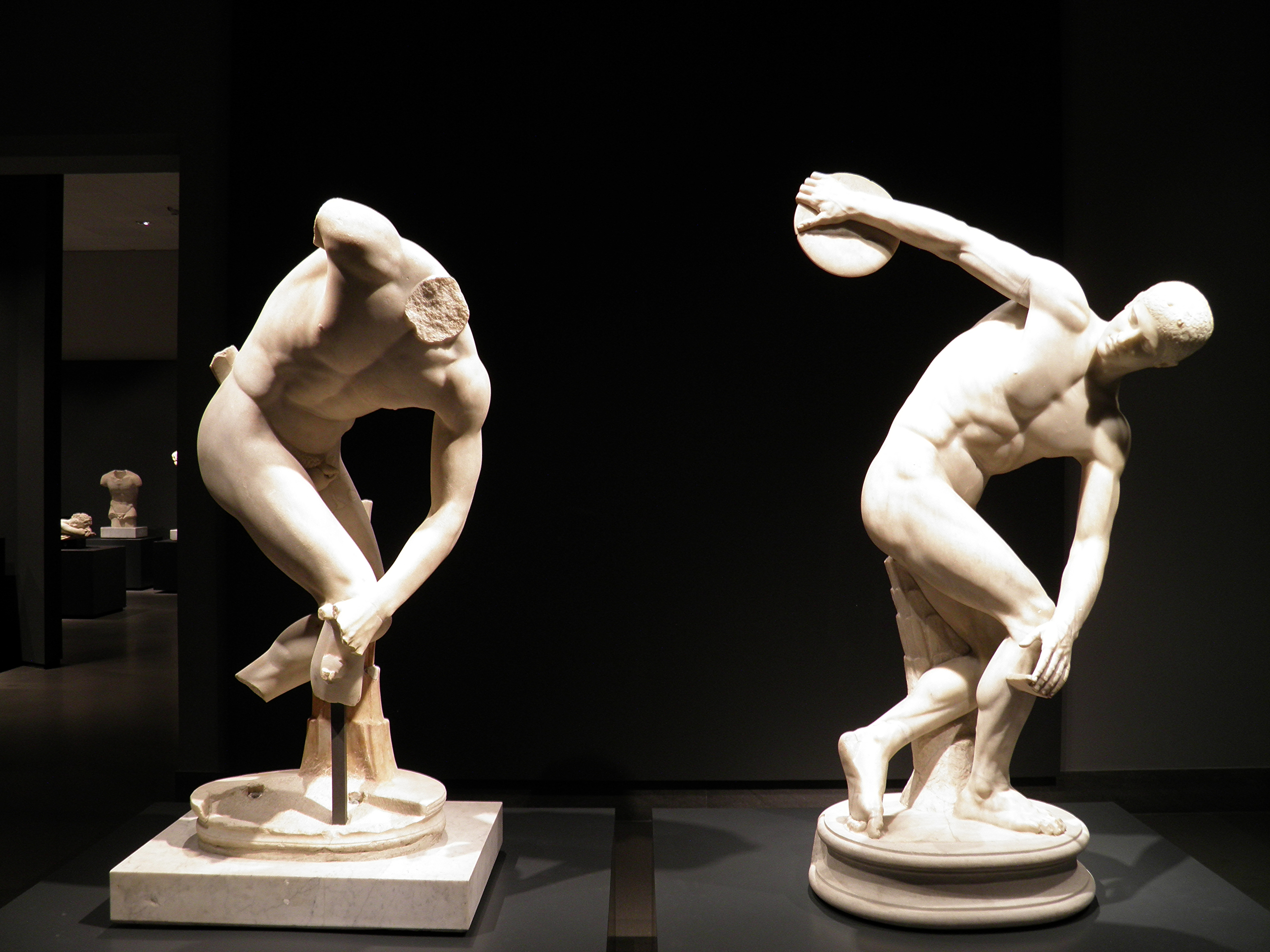 The Discobolus Lancellotti and a fragmentary statue of the Lancellotti type, Roman copies of a 5th century BC Greek original by Myron, Hadrianic period, Palazzo Massimo alle Terme